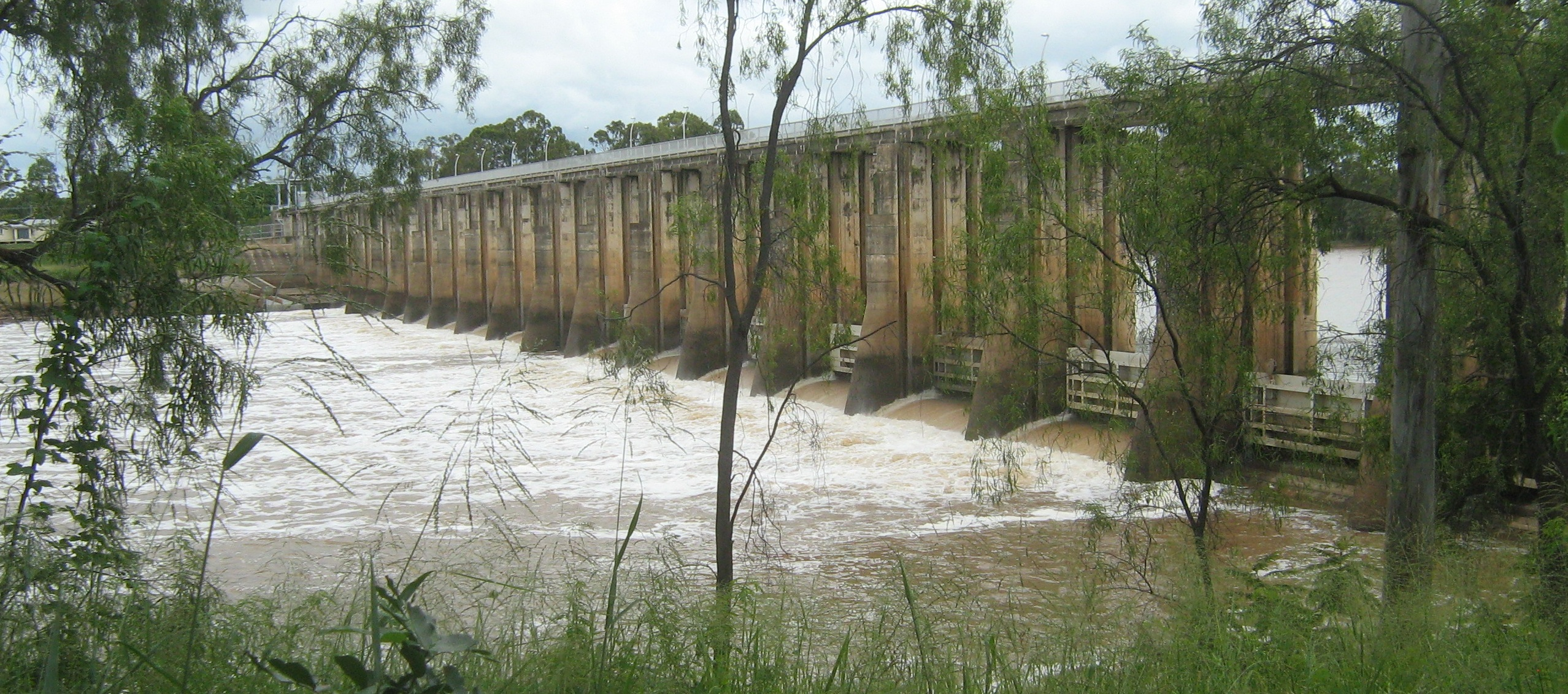 Pioneer River Barrage in Mackay